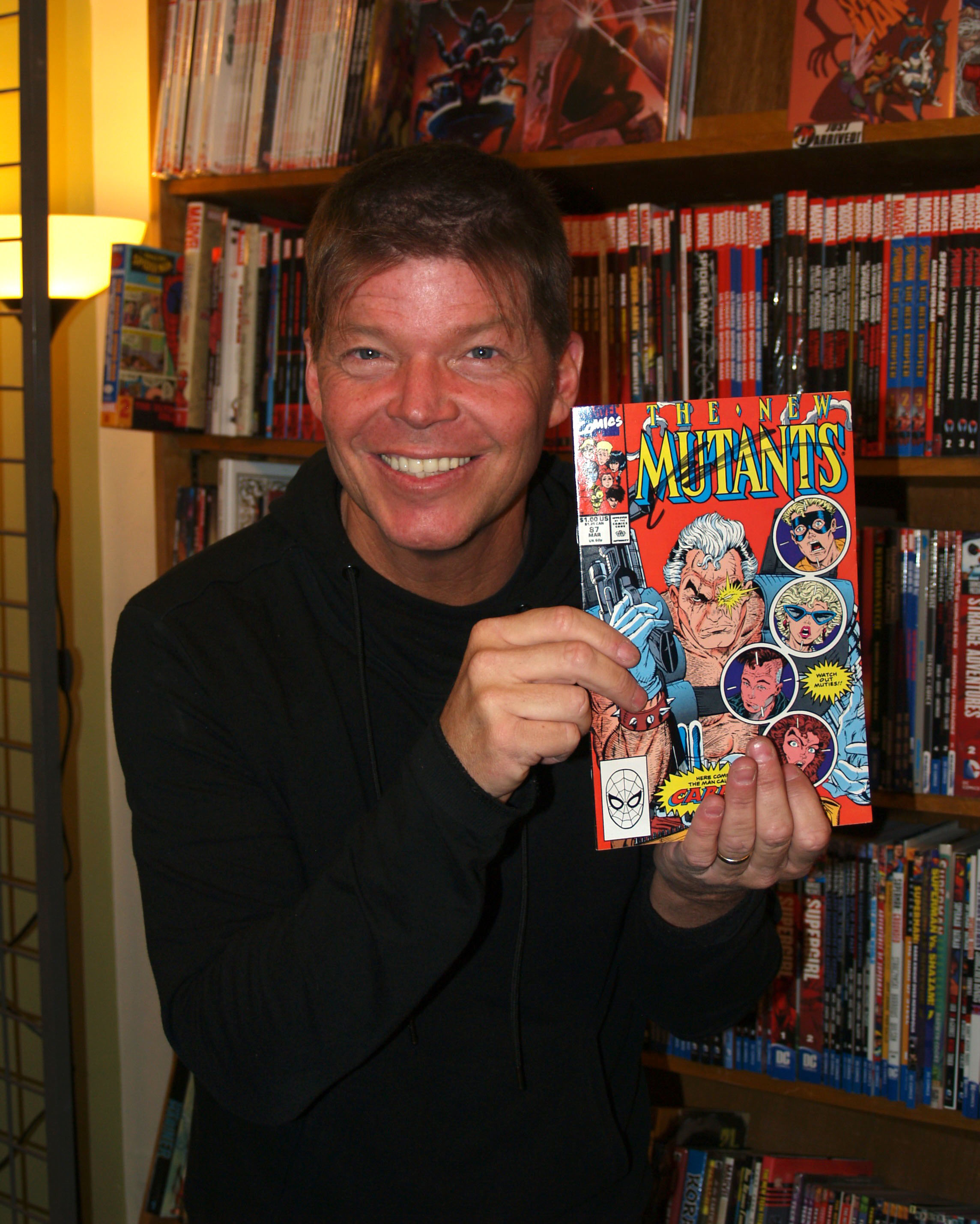 Comics creator Rob Liefeld at a book signing for Marvel True Believers: Deadpool #1 at JHU Comics in Manhattan on February 9, 2016. The book is a reprint of The New Mutants #98 (February 1991), in which the most popular character Liefeld created, Deadpool, first appeared. The signing was timed to coincide with the February 12, 2016 release of the feature film Deadpool, which features the character. In the photo, Liefeld is holding up the photographer's copy of The New Mutants #87 (March 1990), which features the first appearance of Lifeld's other notable New Mutants character, Cable. This photo was created by Luigi Novi. It is not in the public domain, and use of this file outside of the licensing terms is a copyright violation.